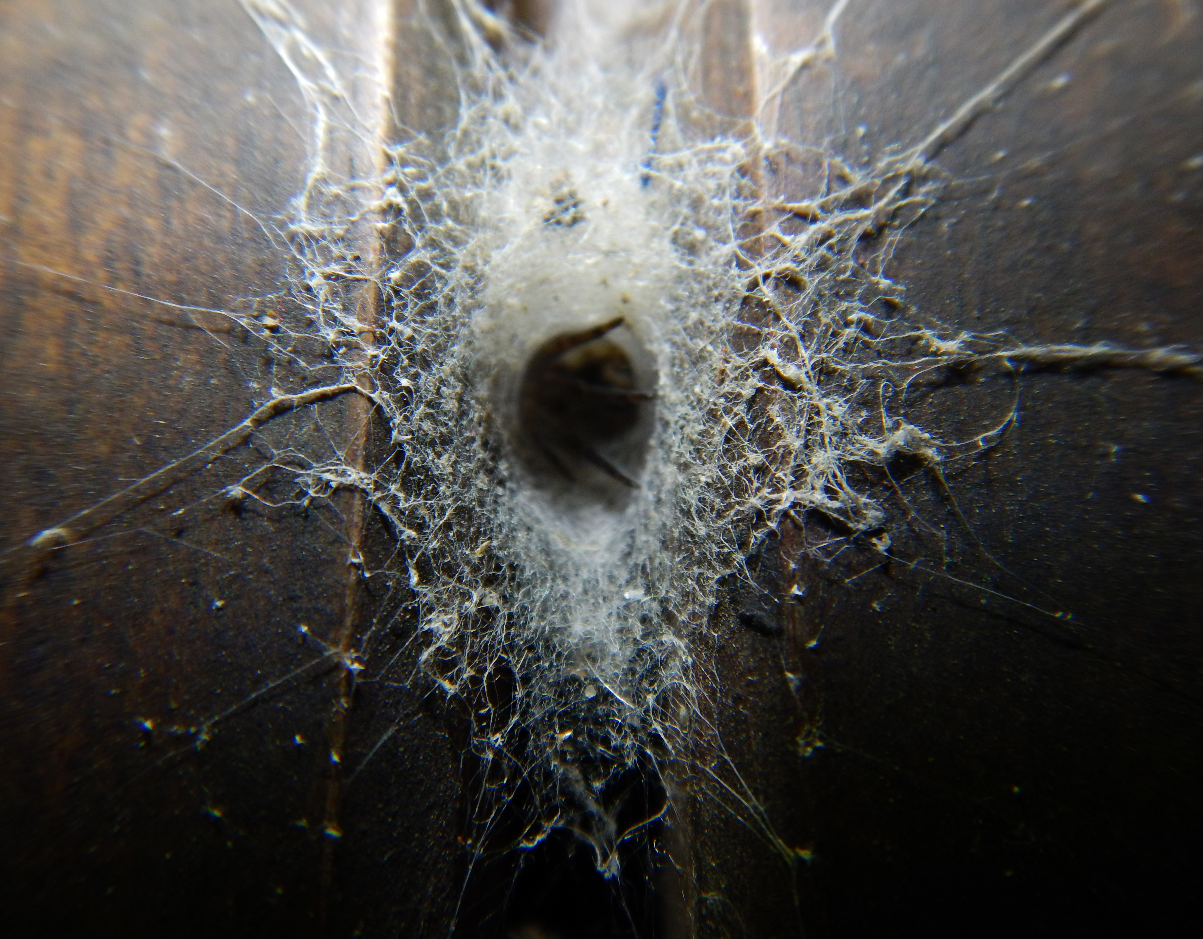 Spider web, typical of egestria sp) 26 juillet 2016 near Lille (région Hauts-de-France, northern France)